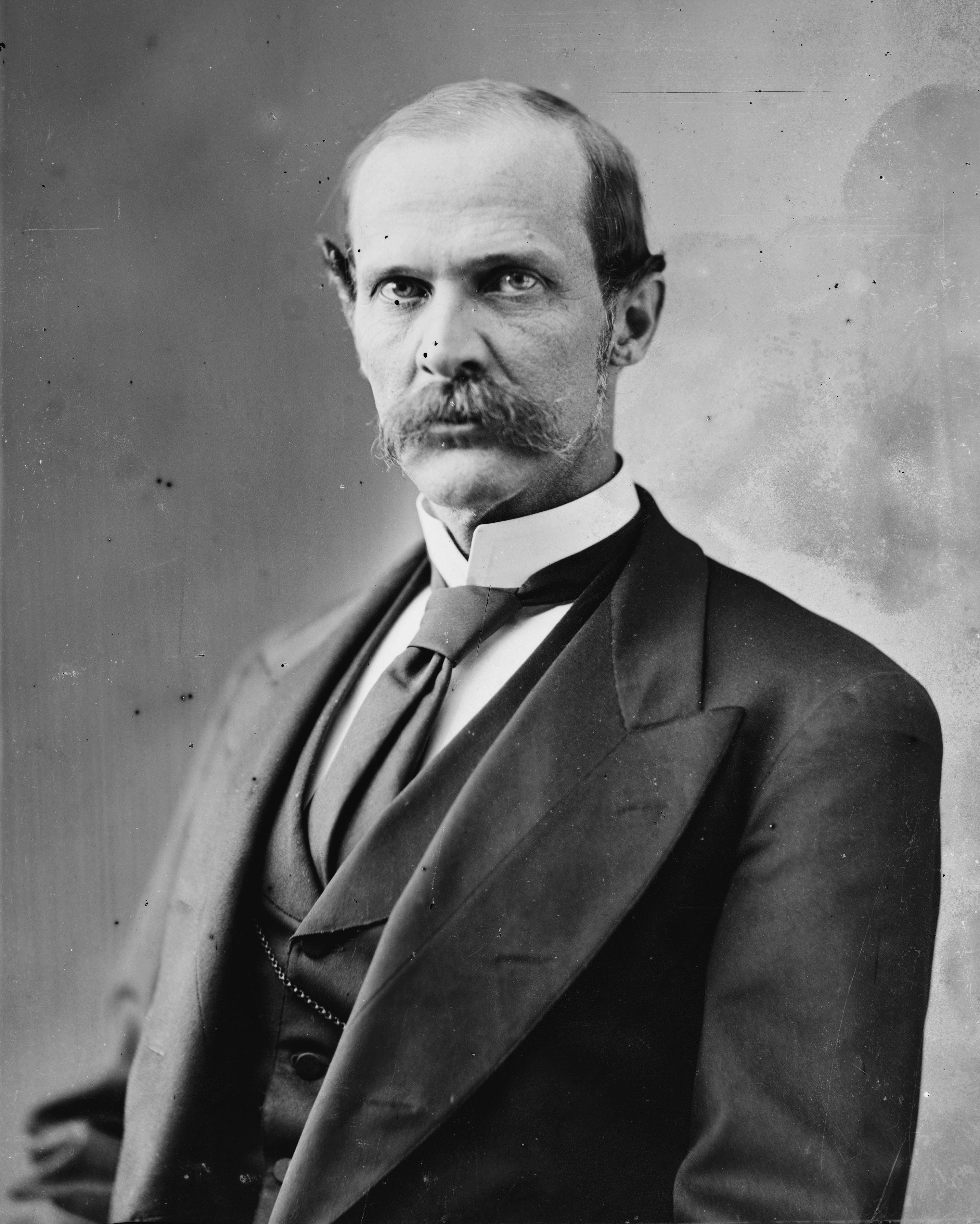 Randall L. Gibson. Library of Congress description: "Sen. Gibson, La." Library of Congress Prints and Photographs Division. Brady-Handy Photograph Collection. CALL NUMBER: LC-BH826- 29767 A [P&P] Note: Randall Lee Gibson (September 10, 1832 – December 15, 1892) was a U.S. Senator and a member of the House of Representatives from Louisiana. He was also an officer in the Confederate States of America military, a regent of the Smithsonian Institution, and a president of the board of administrators of Tulane University. (This summary was created using Commons SumItUp)